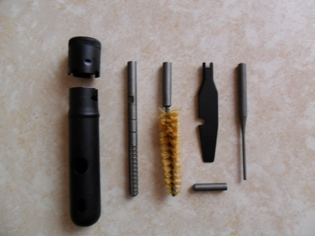 Toolbox for Small Arms